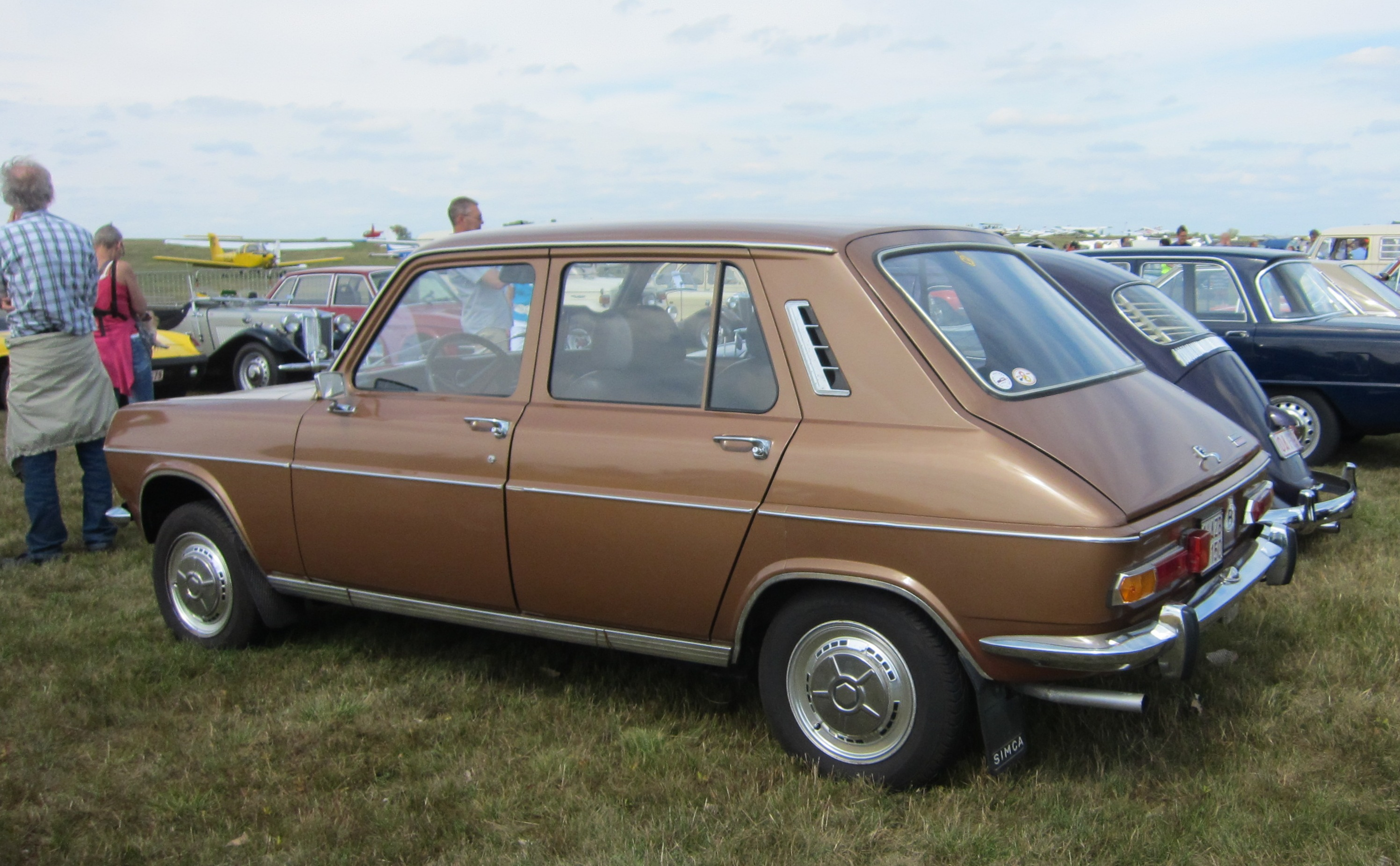 Simca 1100 exhibited at Schaffen-Diest Fly-drive 2013